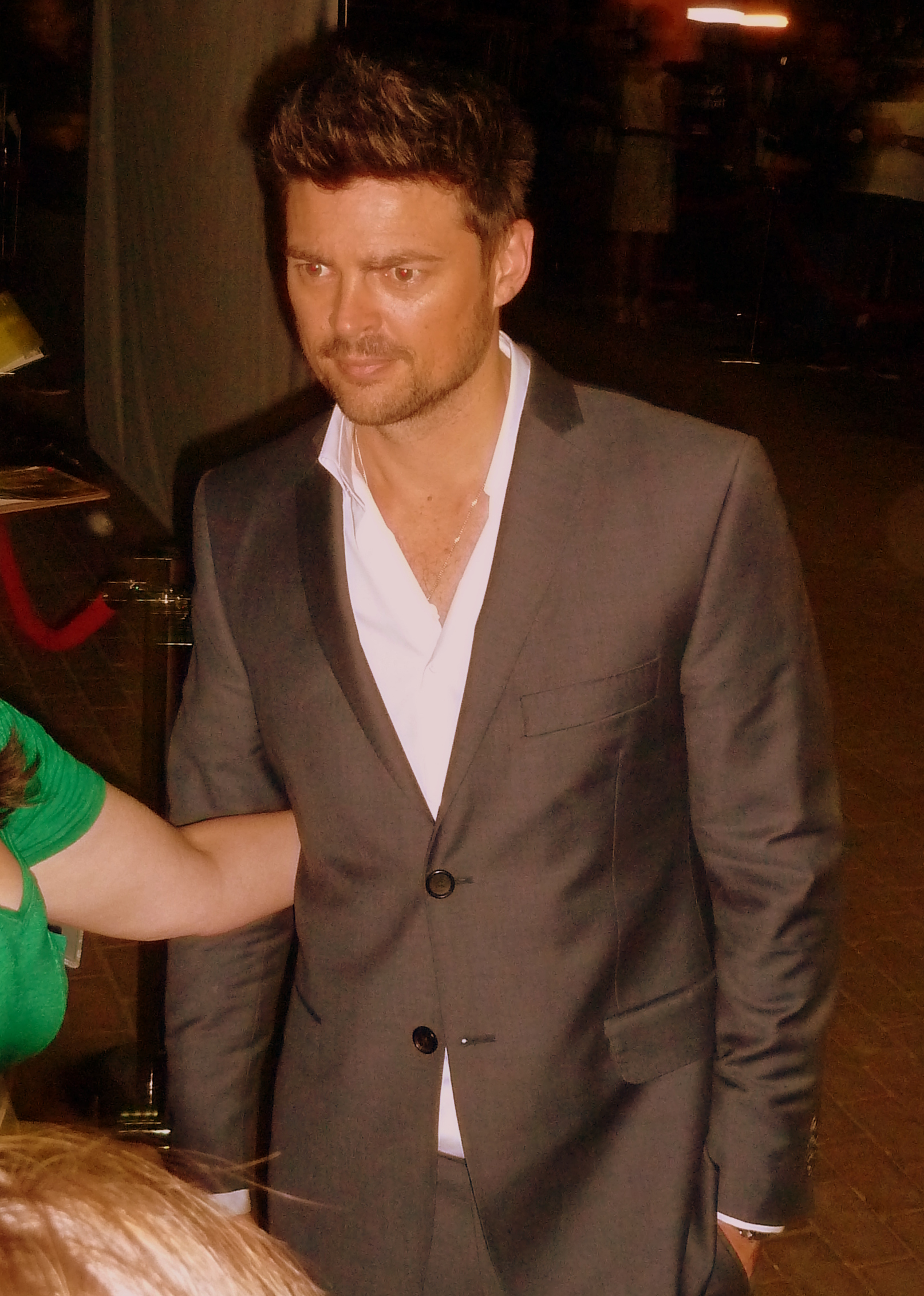 Karl Urban at the premiere of Dredd, Toronto Film Festival 2012 Someone really wants a piece of him.